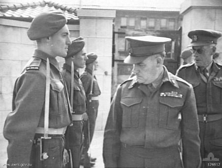 Chefu, Japan Lieutenant General J. Northcott CB MVO, Commander In Chief, British Commonwealth Occupation Force (BCOF), inspects the guard of honour at HQ 9th New Zealand Infantry Brigade. To the rear of Lieutenant General Northcott is Brigadier K. L. Steward, CBE DSO, commander of the brigade.